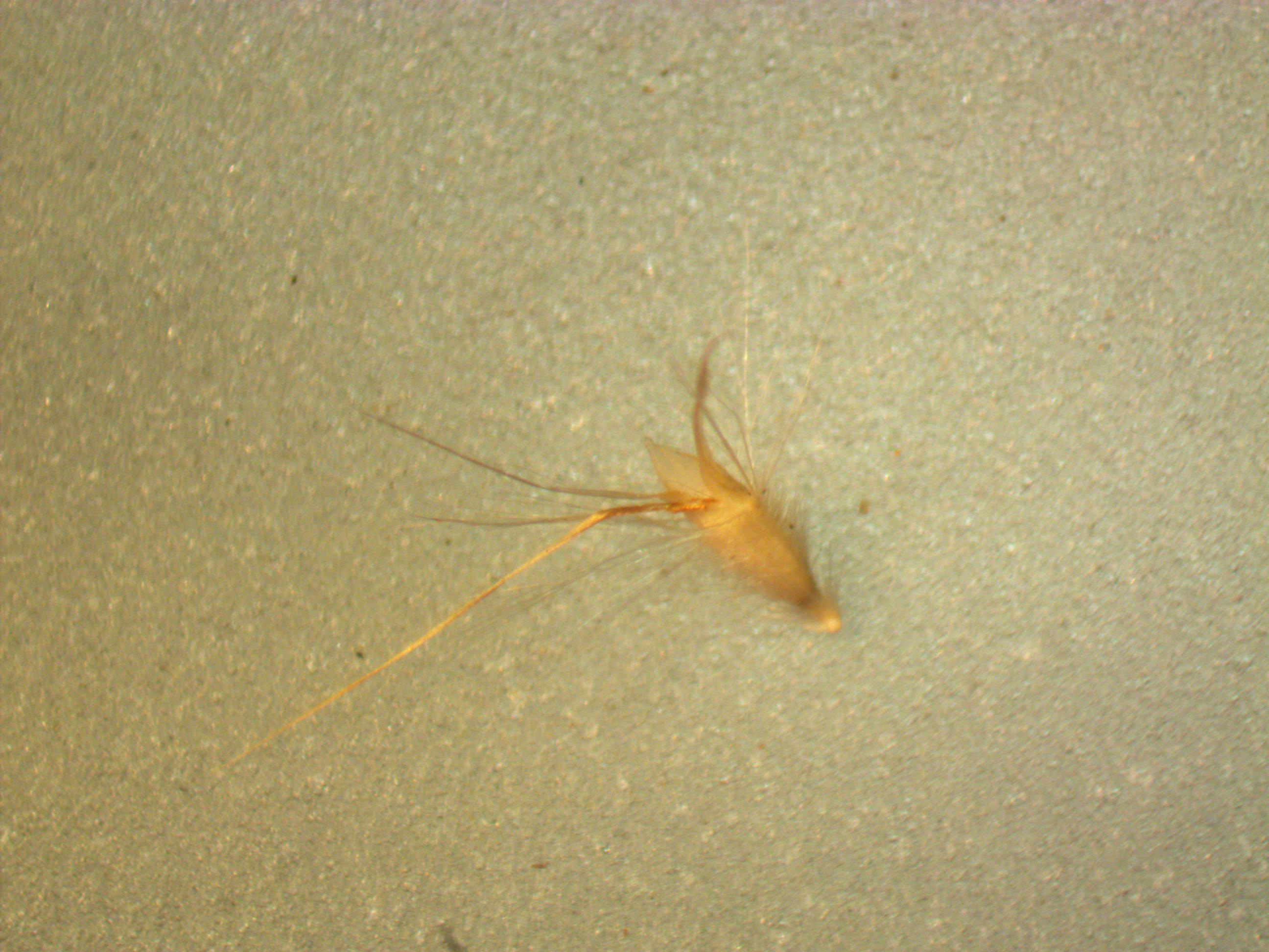 This sample was identified as R monticola by RBGSYD, but has hairless sheaths and blades, no ligule, flowerheads to 8 cm long and robust plants - all more typical of R longifolium. Lemmas are 2-2.8 mm long (excluding lobes) and covered in short hairs, but with a row of distinctly longer hairs just below the awn; the awn arises between 2 shortly-awned lobes and has a twisted base. Paleas are lanceolate and distinctly longer than the lemma bodies.